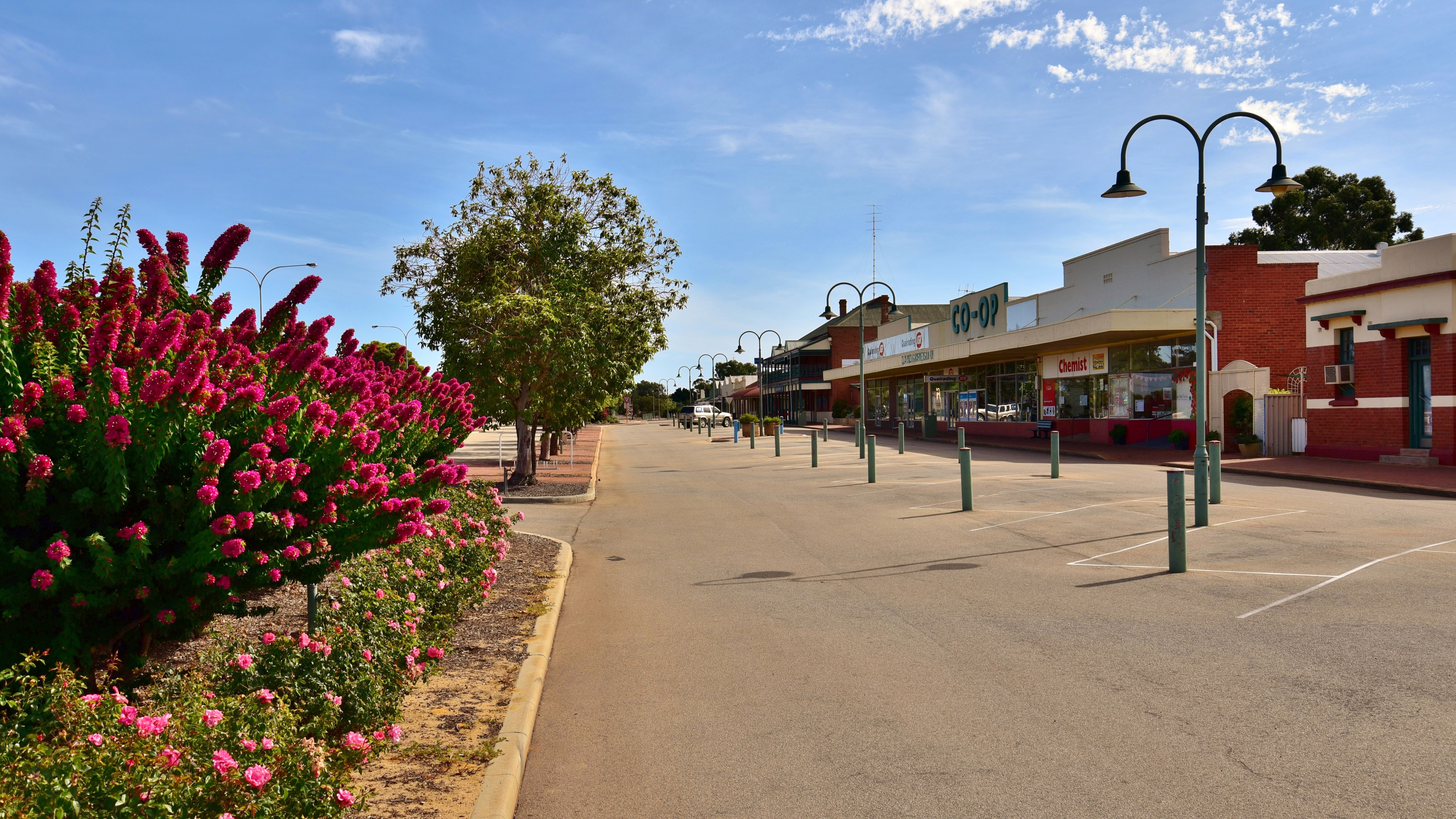 View of Heal Street, Quairading, Western Australia